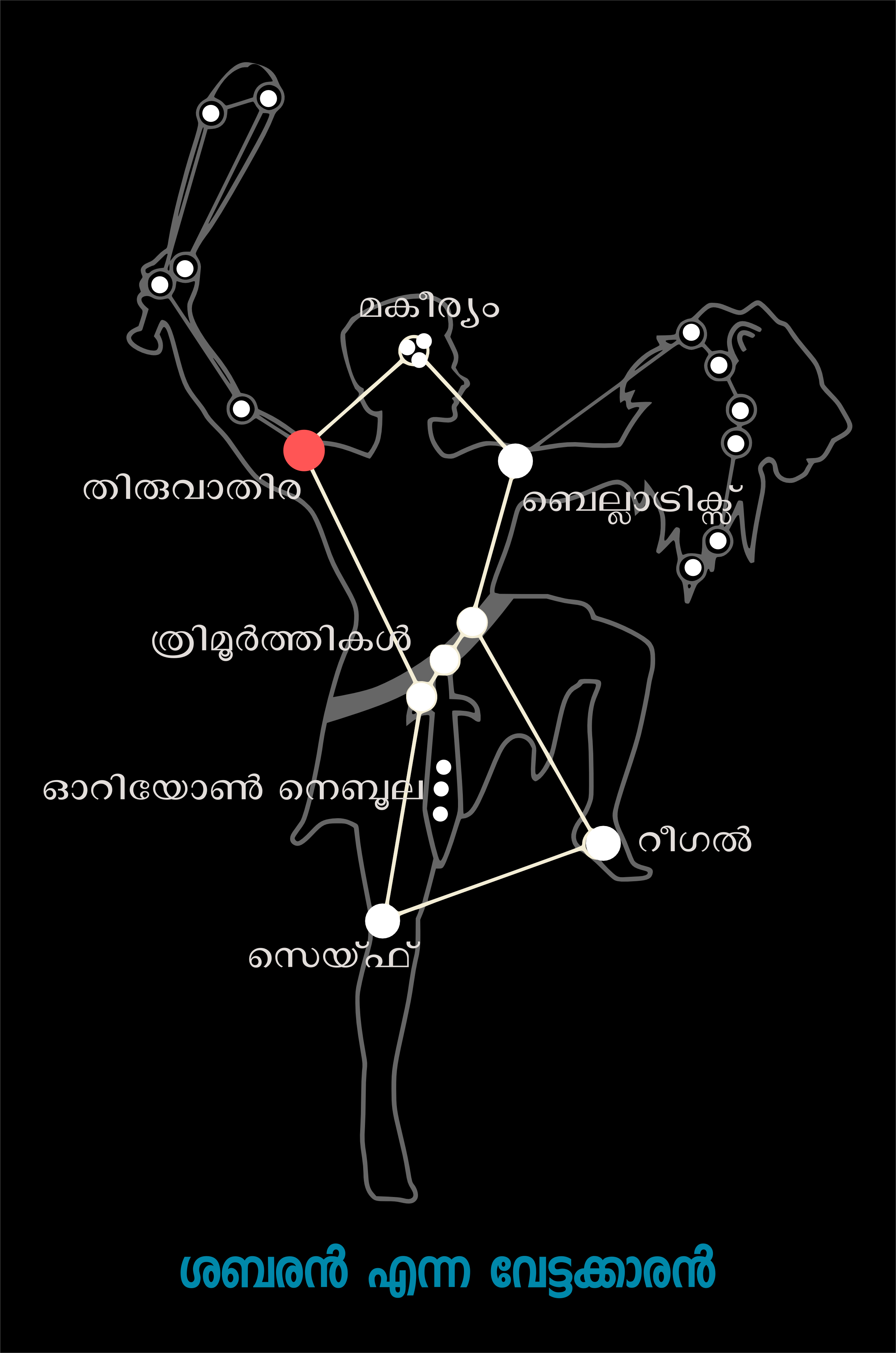 ശബരന്‍ നക്ഷത്രസമൂഹവും പ്രധാന നക്ഷത്രങ്ങളും